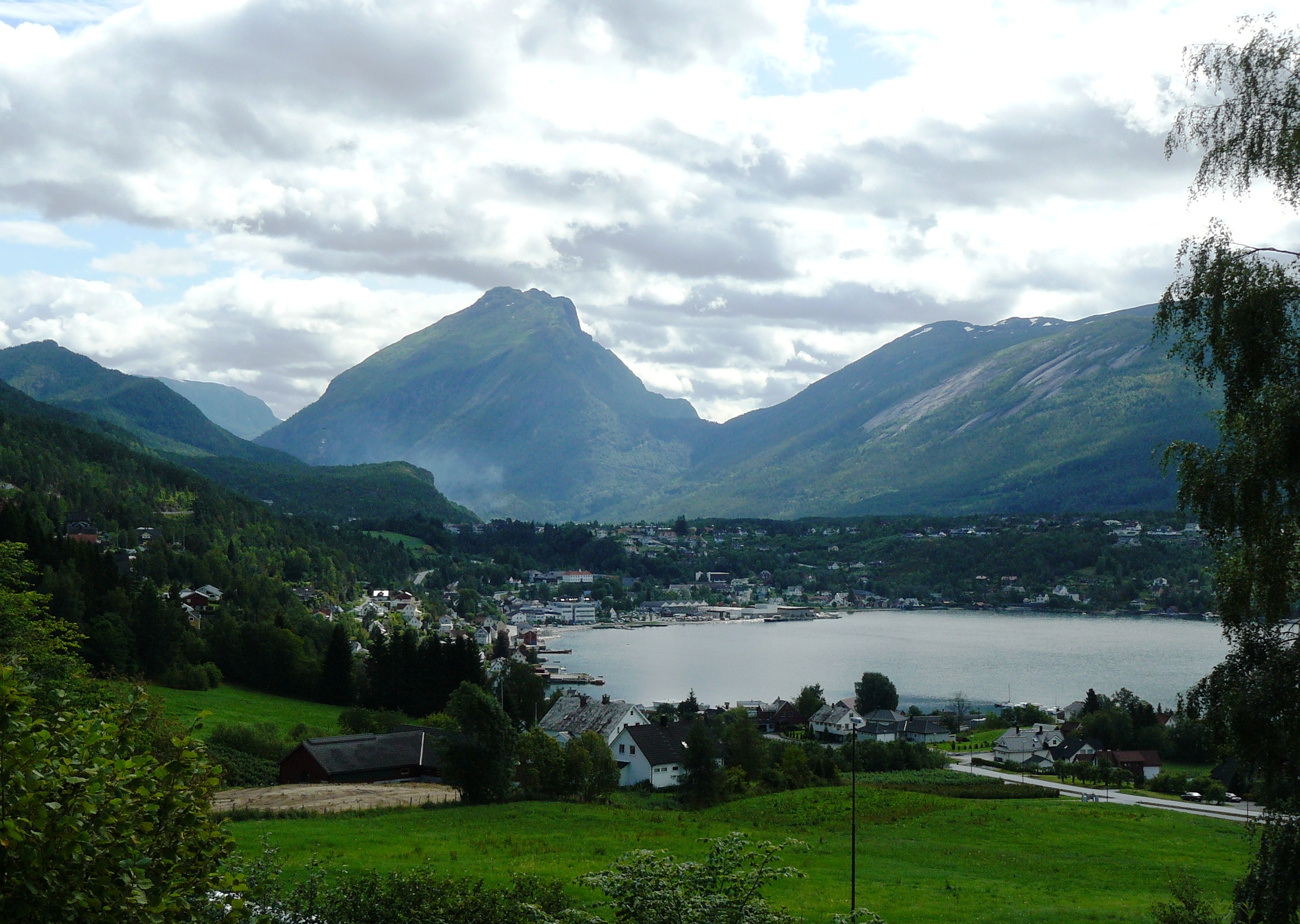 Sandane in Gloppen, Sogn og Fjordane seen from Hauge. The mountain Ryssdalshorn is the dominant landmark in the centre of the picture